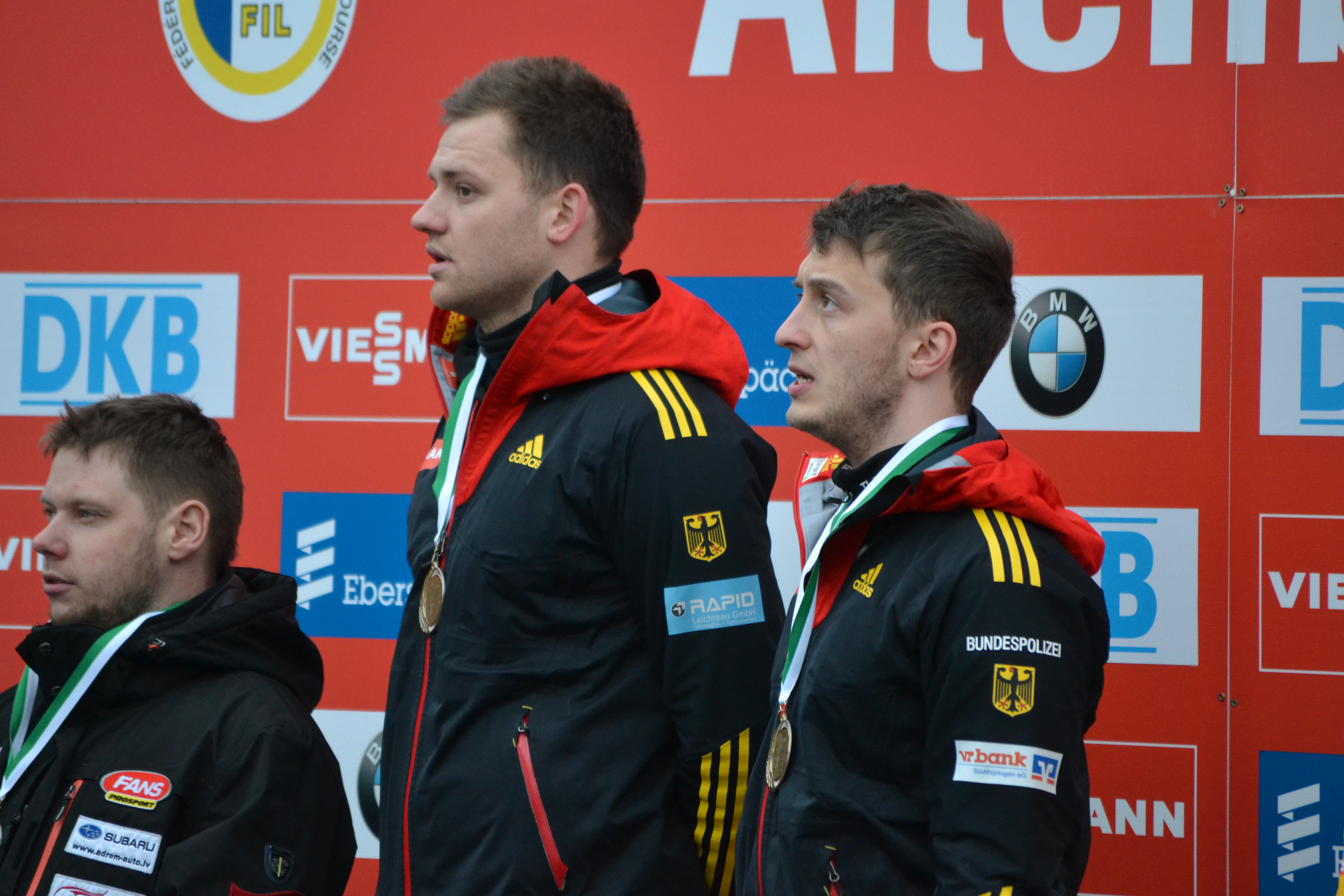 Luge world cup race season 2014/15 in Altenberg/Germany, 19th to 22nd Februar 2015. Last Day: medal ceremonies.